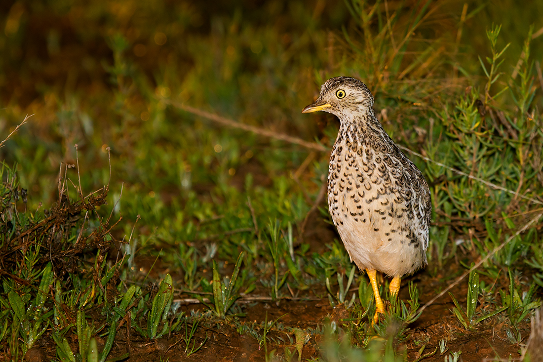 Plains-wanderer Pedionomus torquatus, male. North of Deniliquin, NSW. Map location not precise as bird is on private land.